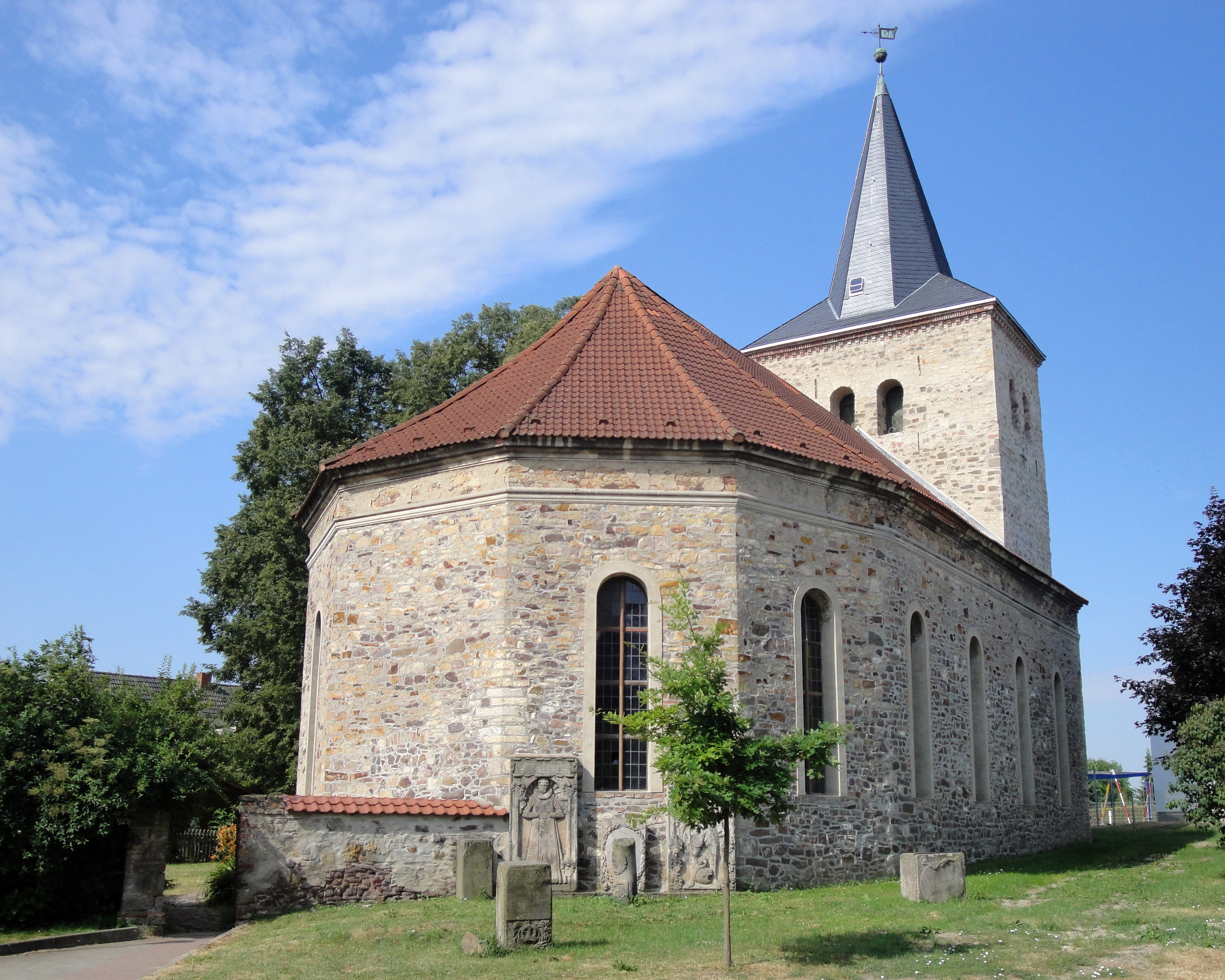 Church St. Christophorus in Wellen, Höhe Börde, Germany